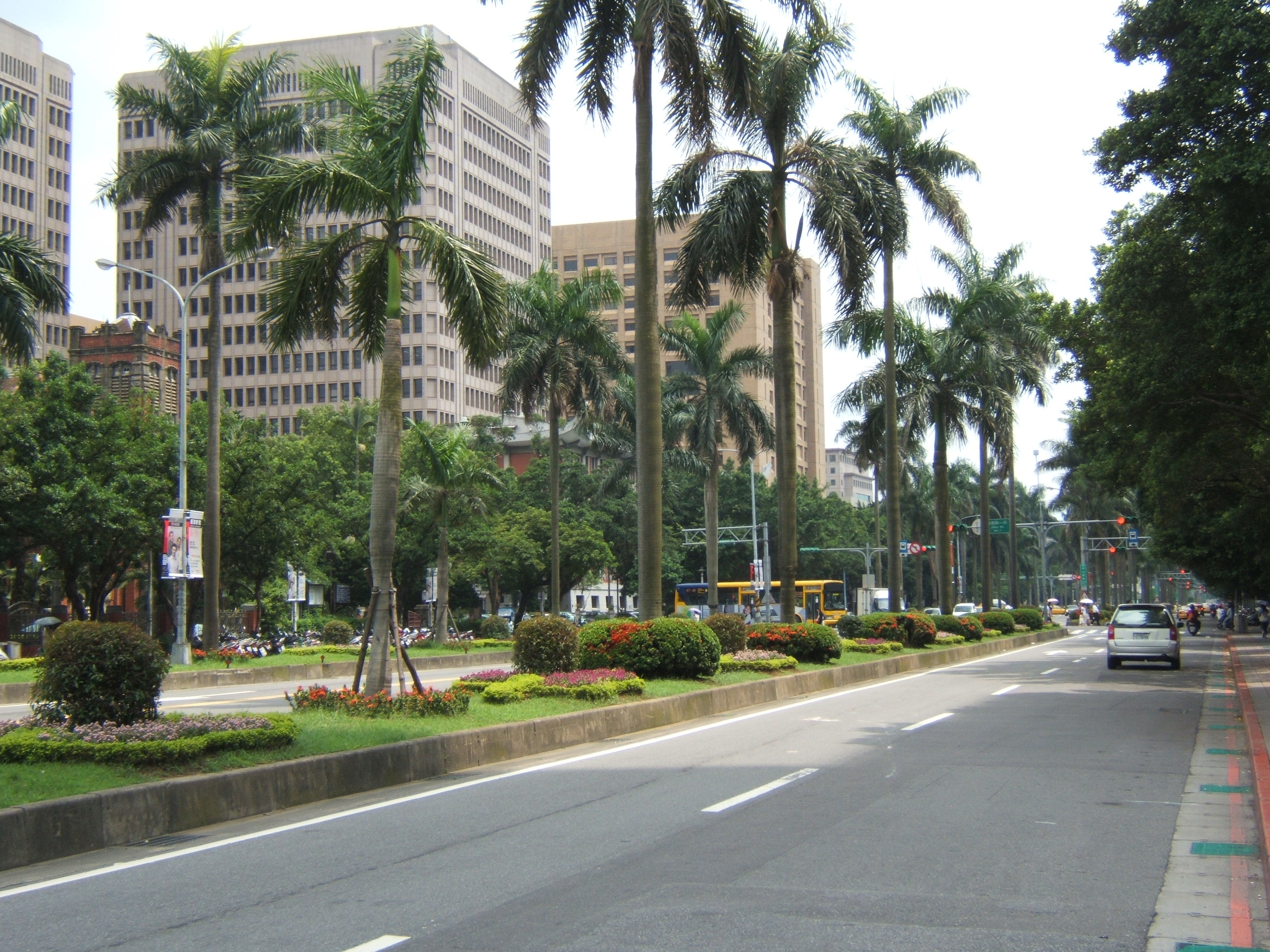 Zhongshan South Road Section 1, Zhongzheng District, Taipei City, near of Joint Central Government Office Building.